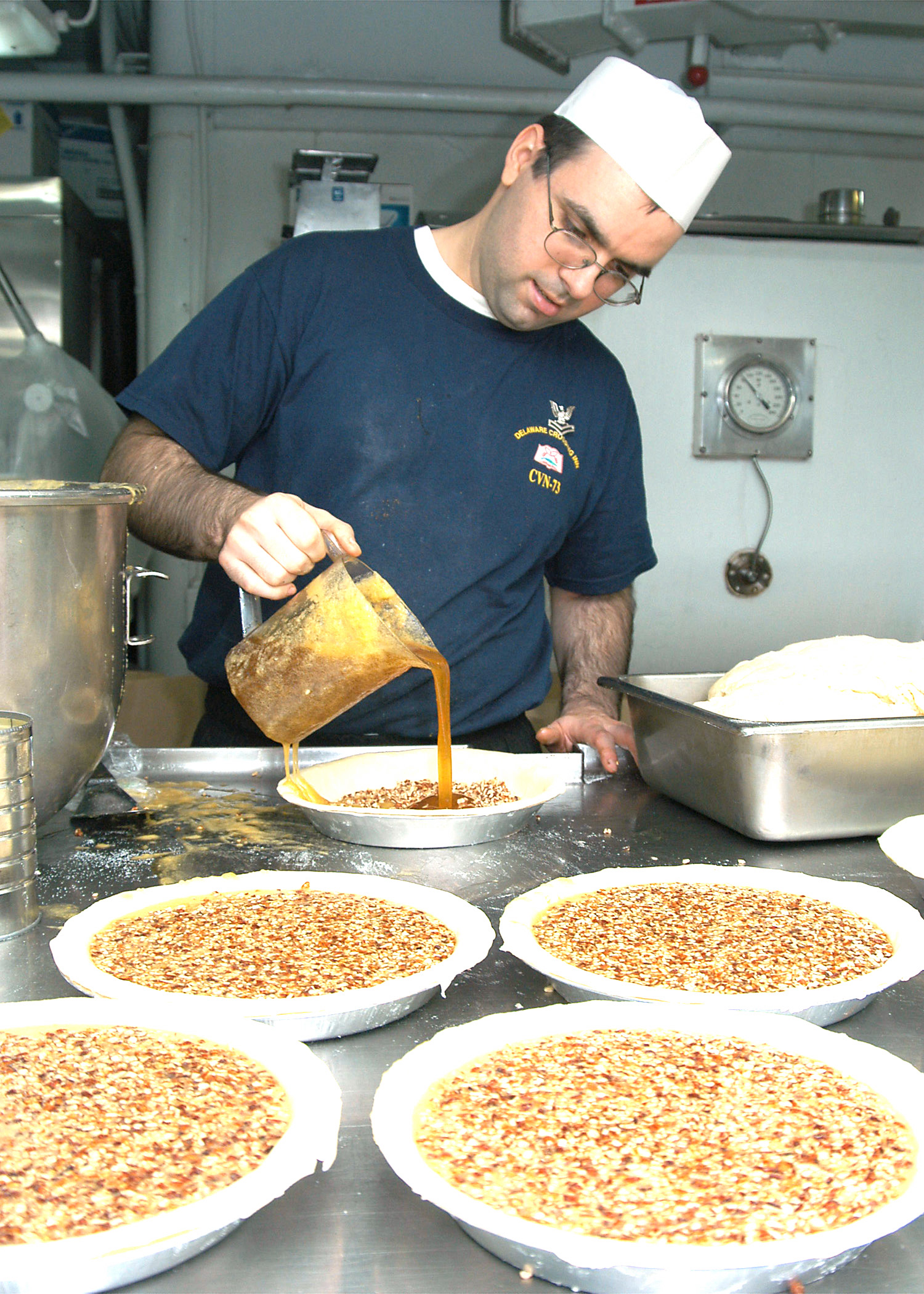 Atlantic Ocean (Nov. 27, 2003) -- Mess management specialist 2nd class Joshua Derode from Minneapolis, Min., prepares pecan pies for the big thanksgiving dinner aboard USS George Washington (CVN 73). The Norfolk, Va.-based carrier is conducting Composite Training Unit Exercises (COMPTUEX) in the Atlantic Ocean during final preparations for an upcoming scheduled deployment.